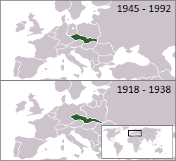 Location of Czechoslovakia 1918–1938 and 1945–1992 (other european borders are correct for: 1919–1922 / 1956–1990)